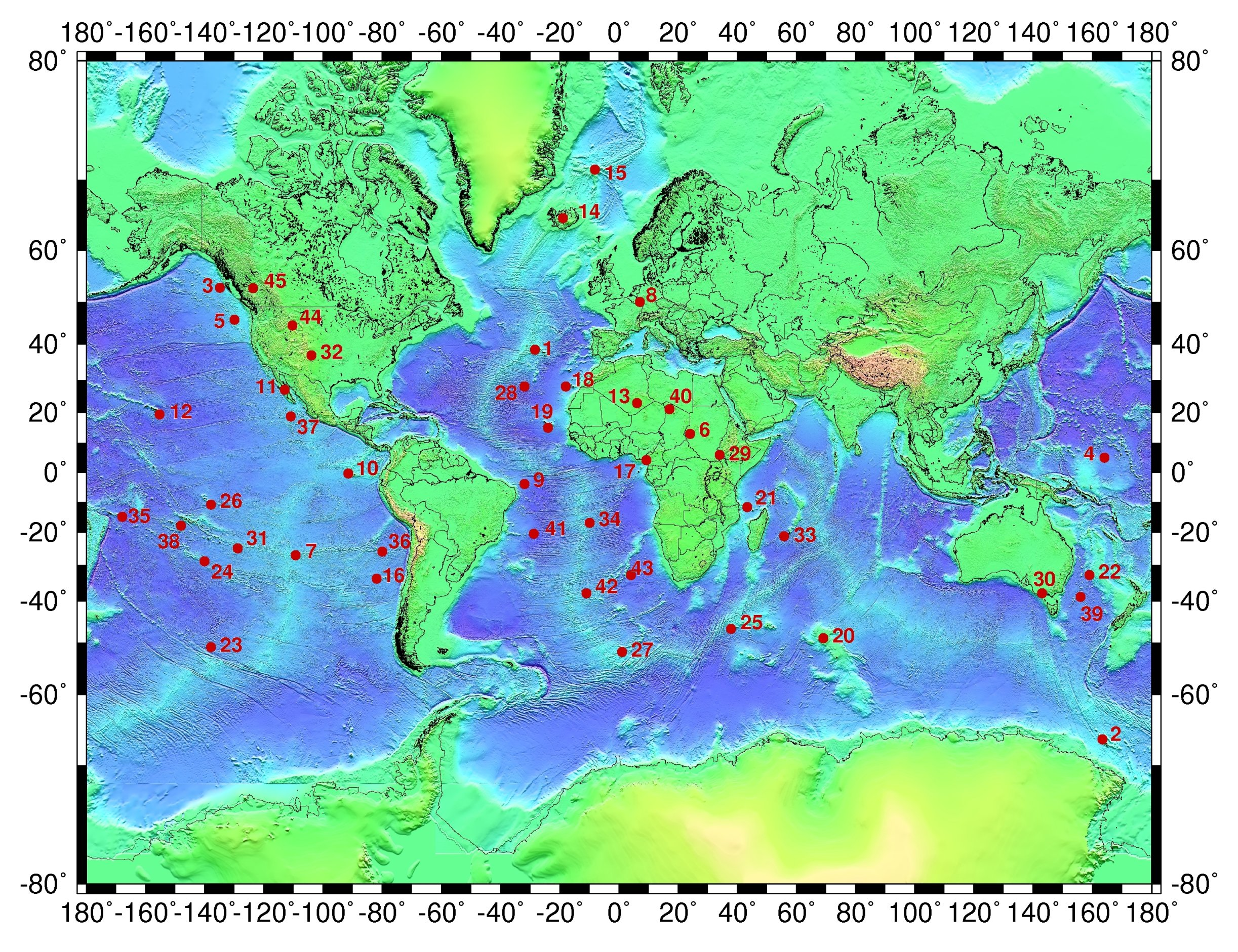 global distribution of 45 identified hotspots